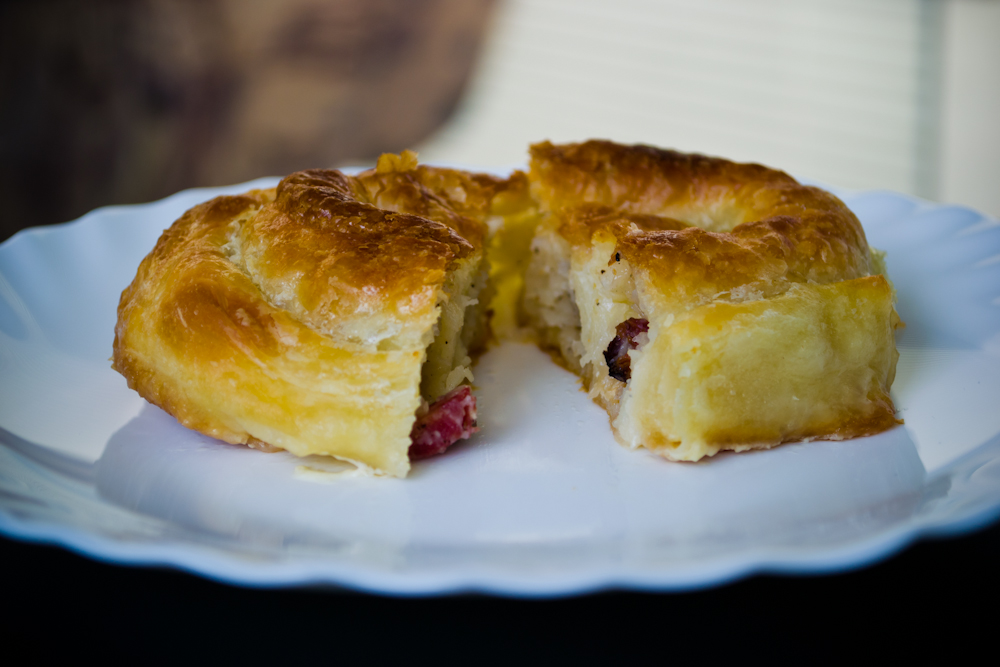 Traditional (I guess Bosnian) food.